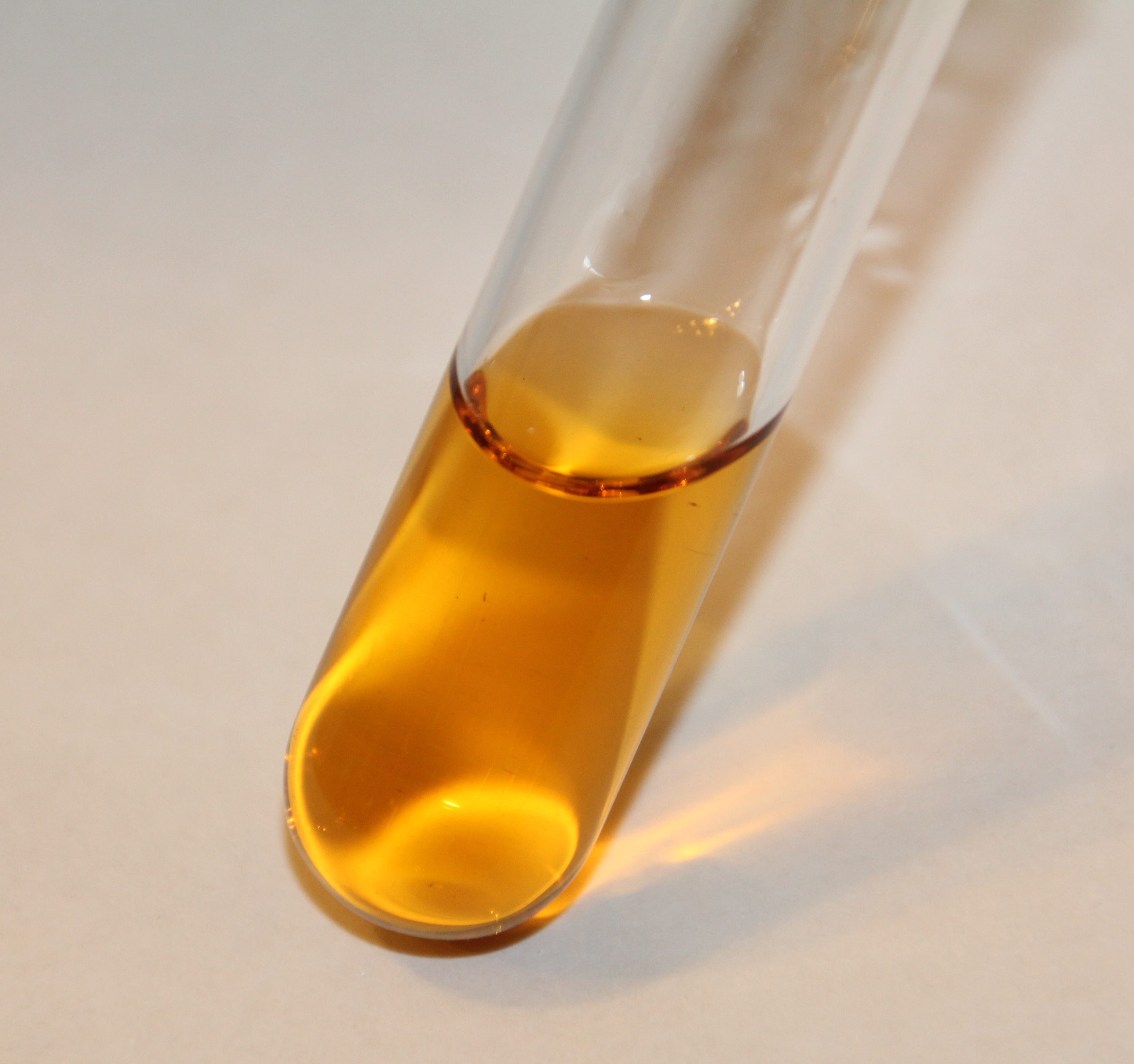 Tetrachloropalladate ions in aqueous solution